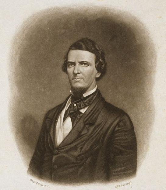 Preston S. Brooks, Representative in Congress of the U.S. from South Carolina